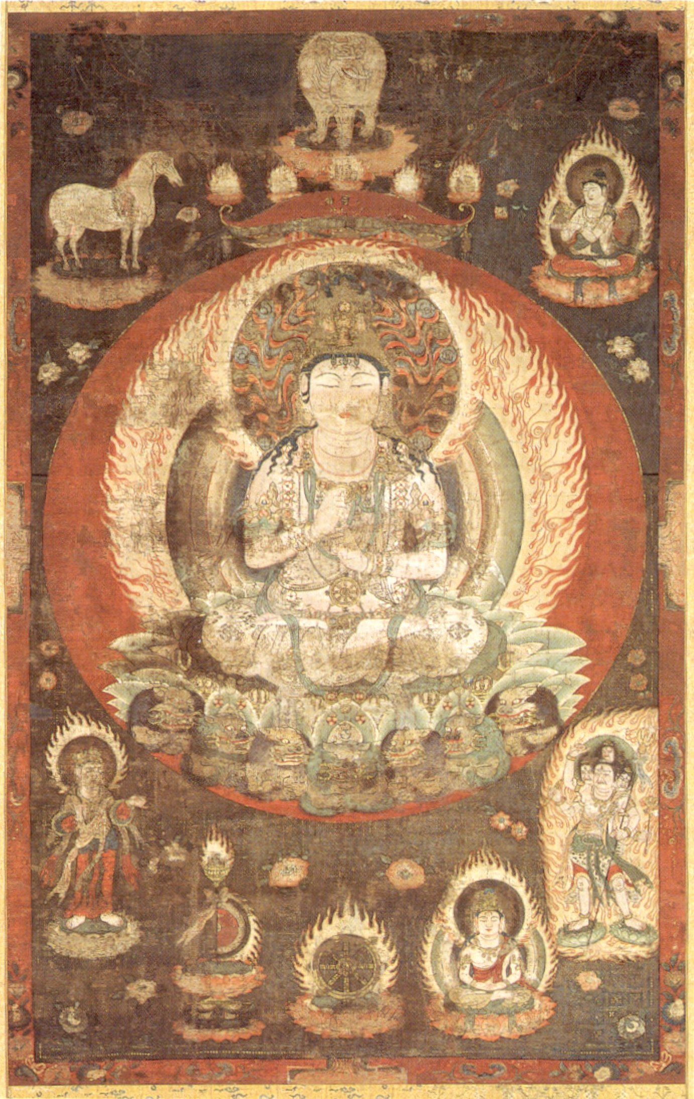 Mandala of the Single-syllable Golden Wheel (Ichiji kinrin mandara), Heian period, , Nara National Museum